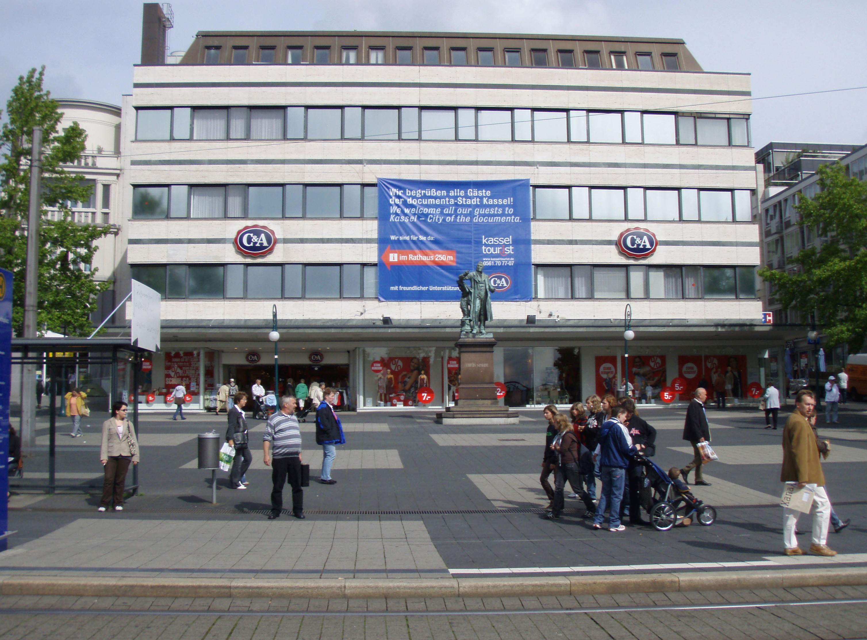 A C&A shop in Kassel, Germany.C&A